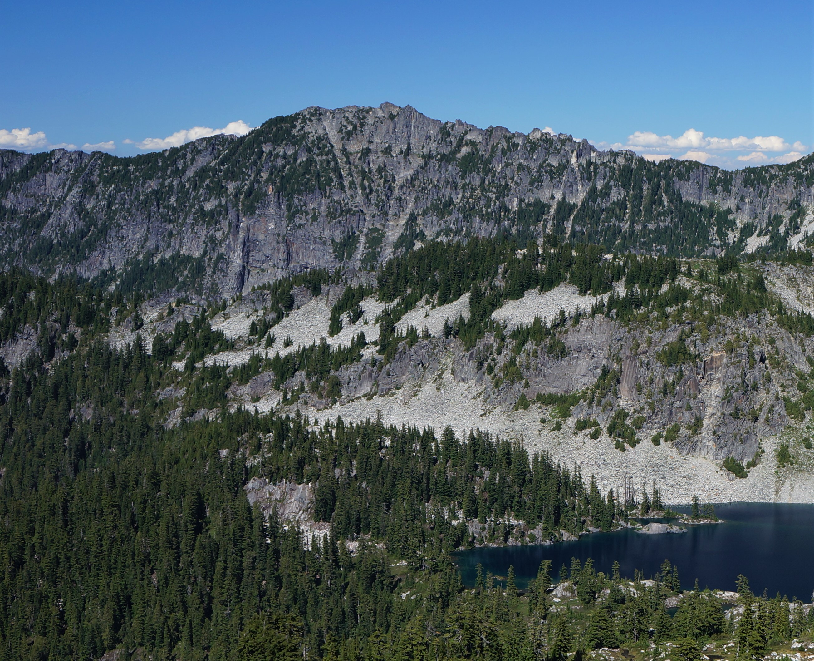 Camp Robber Peak from SSW